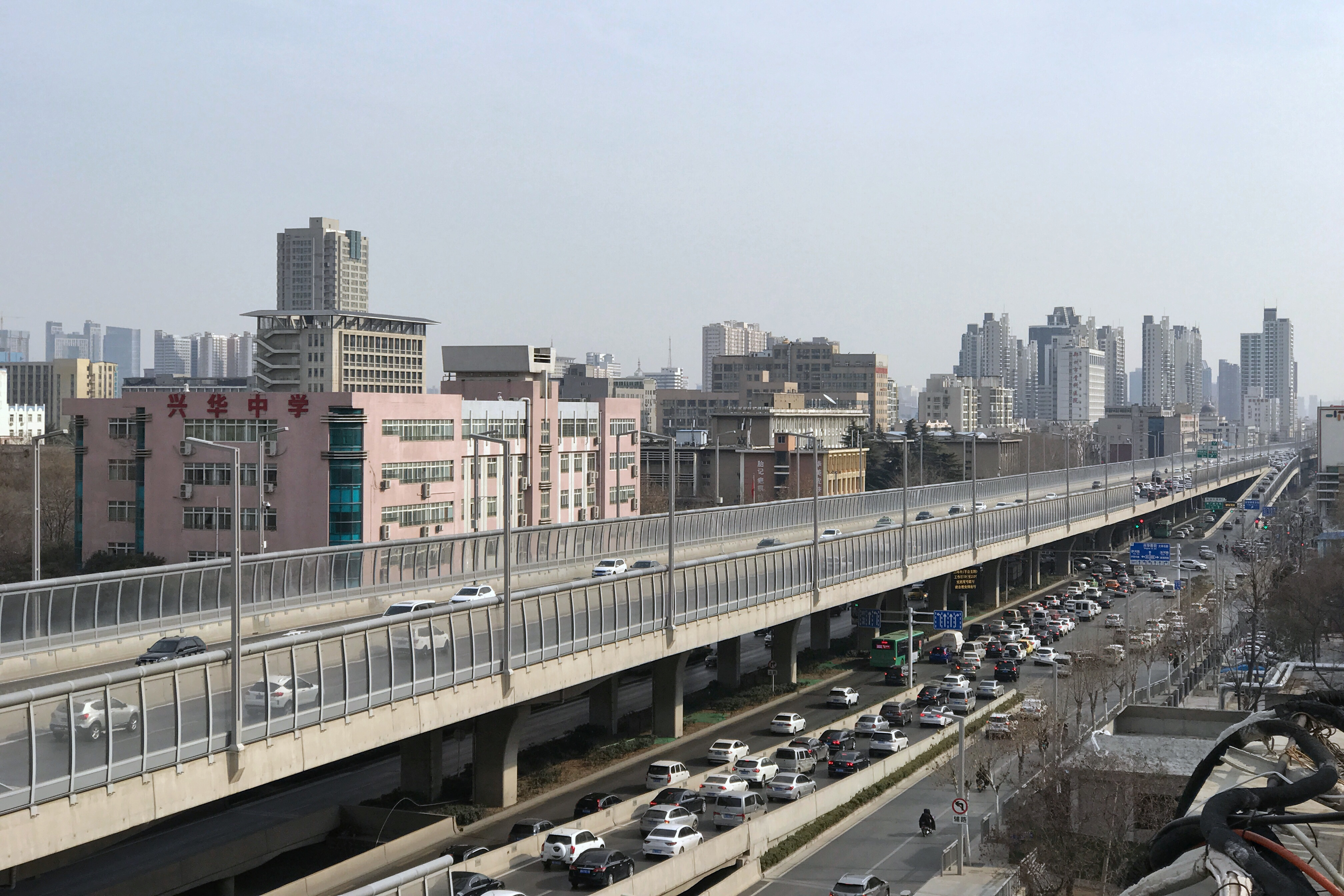 Longhai Expressway in Jan 2019, shot in west Zhengzhou